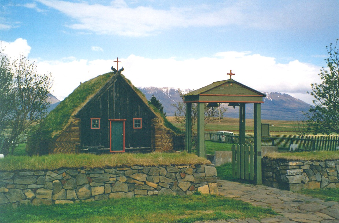 Víðimýrarkirkja in Iceland.